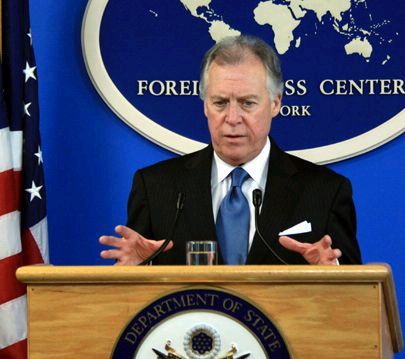 Denis M. Hughes, director of the Federal Reserve and president of the AFL-CIO, delivering a briefing on "Labor in a Down Economy and the Labor Movement".